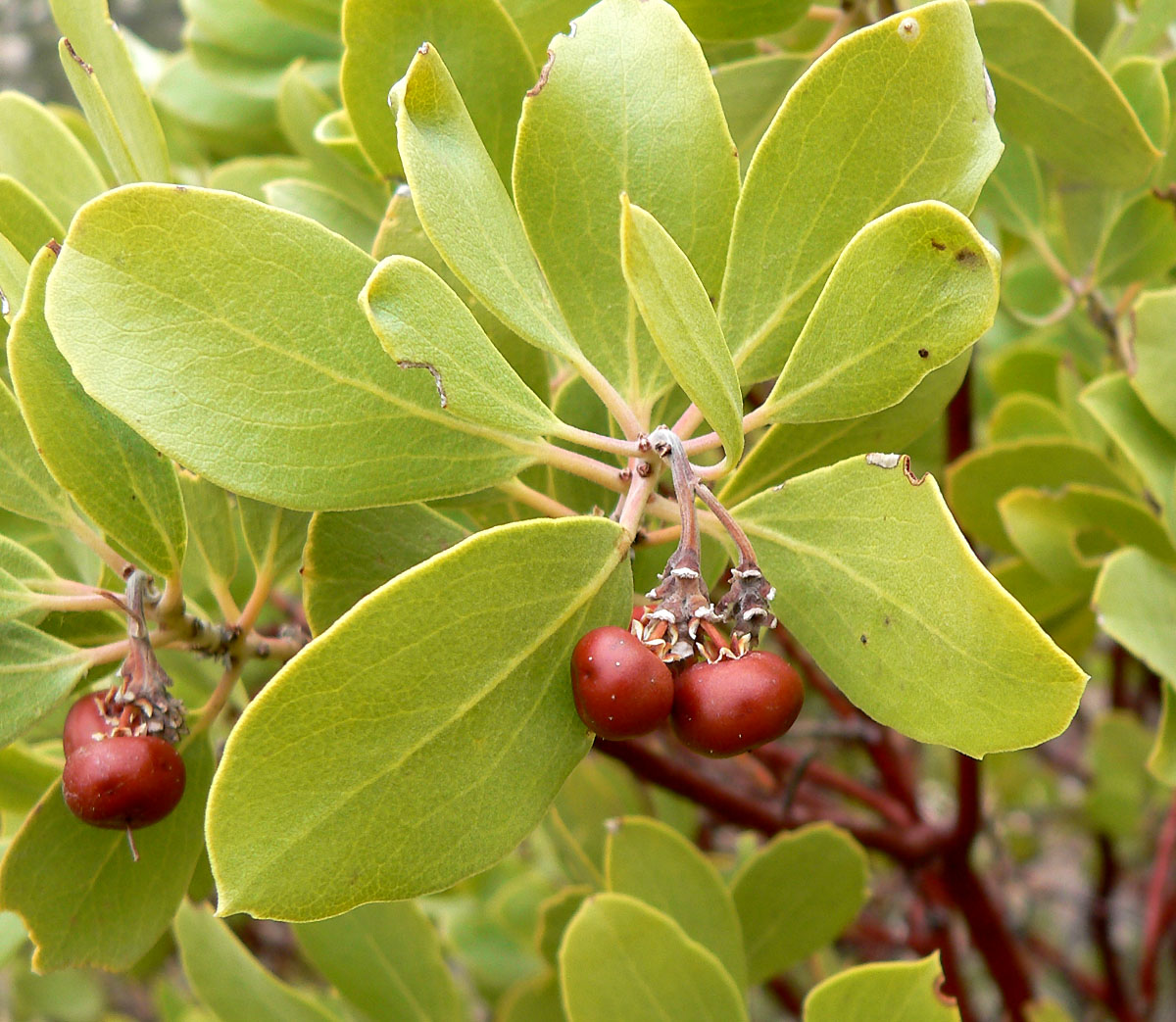 Arctostaphylos pungens in Oak Creek Canyon, Red Rock Canyon, southern Nevada